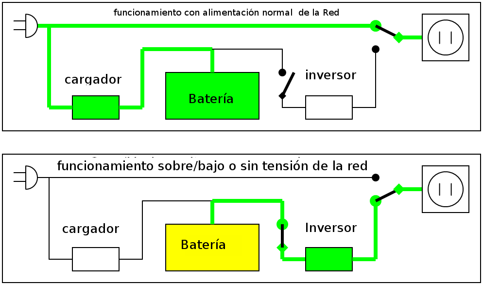 SAI Stanby o en espera